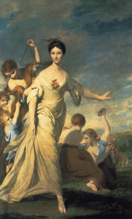 Caption from the museum Full length portrait of Mary Chaloner, sister in law of Edward Lascelles, later 1st Earl of Harewood. Mrs Hale is depicted as Euphrosyne, in white semi-classical dress with sandals, a posy of rose and honeysuckle at her chest. She is represented in dancing movement , while behind her children are dancing and playing musical instruments. Oil painting on canvas in gilt frame. Additional Information Reynold’s light-hearted image shows Mrs Hale as Euphrosyne, one of the Three Graces, the personification of Grace and Beauty and handmaiden to Venus. Depicting his female sitters in mythological guises was a common practice for Reynolds, and he often used poses and roles that alluded to great art of the past, in order to elevate the status of the sitter to that of a divine being. This painting was completed a year after the marriage in 1763 of Mary Chaloner to Colonel John Hale of the Light Horse. Mrs Hale proceeded to bear 21 children in her marriage, and it was once thought that the children in this picture were some of them, but this is not the case. The children represent the spirit of joy of music, playing timpani, triangle and cymbals as Mrs Hale dances. Her dancing pose is said to be taken from a print after Raphael’s St Margaret in the Louvre. Whilst this is plausible , given Reynold’s admiration for Raphael and his borrowing from earlier art, the evidence for this is not conclusive.